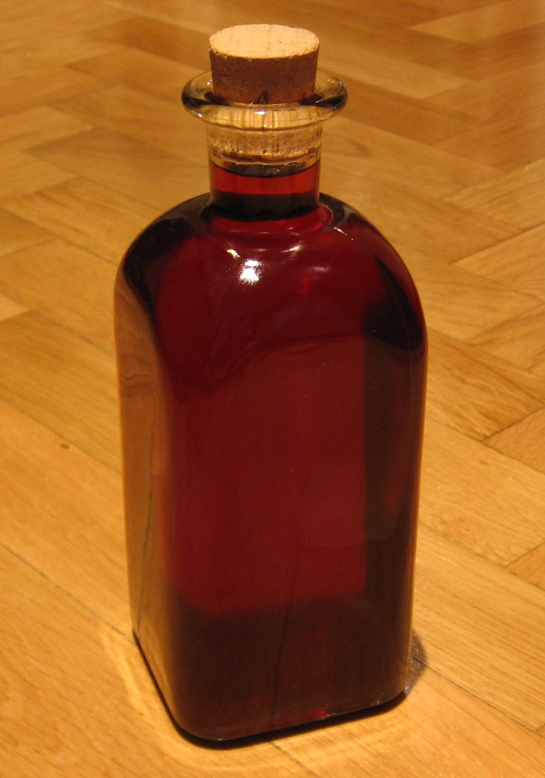 Bottle of Patxaran